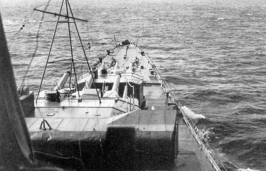 Forward 155-mm gun mount the Japanese heavy cruiser Mikuma.